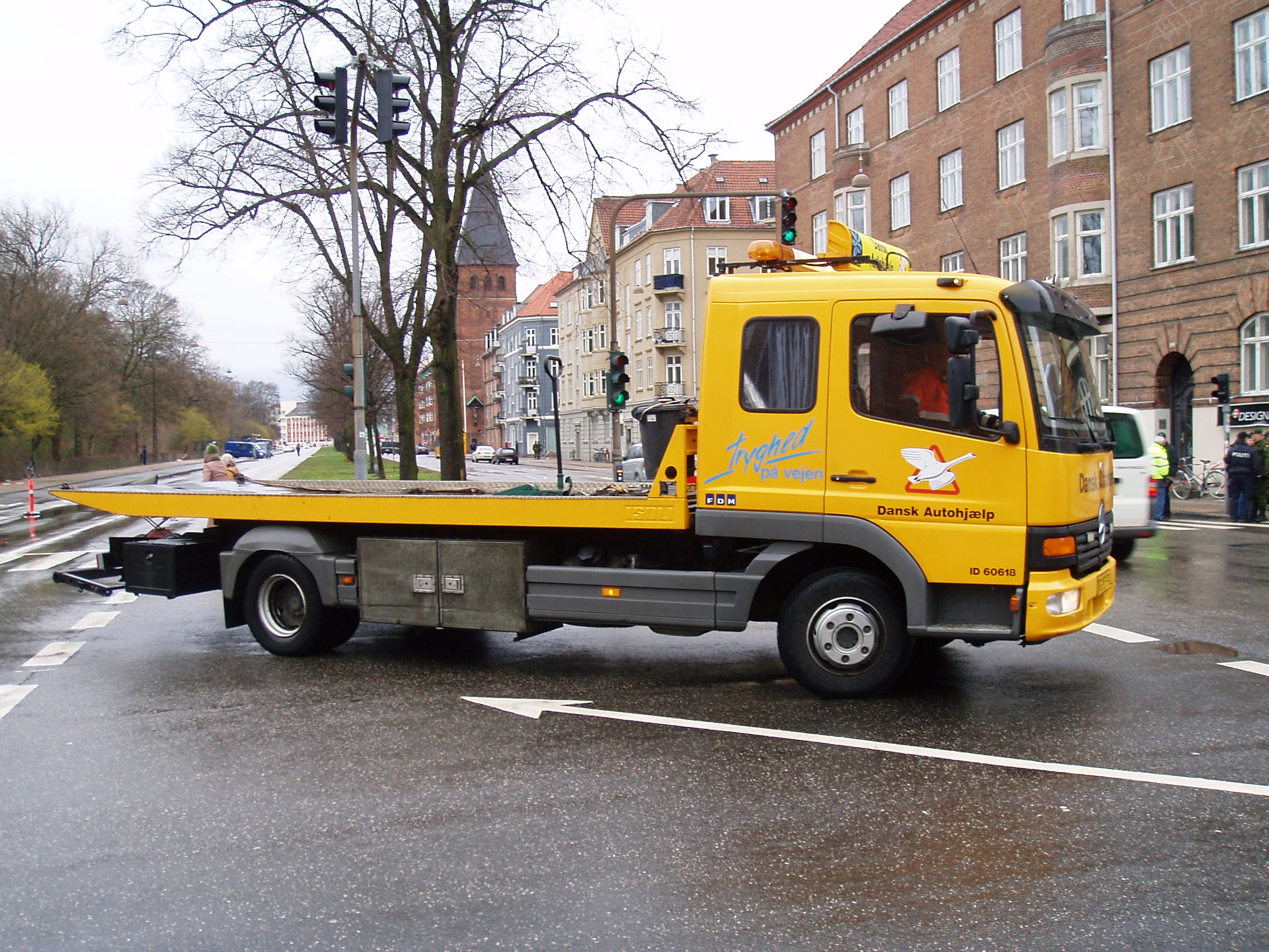 Mercedes-Benz flatbed transporter of Dansk Autohjælp. This type of transporter is build to transport vehicles with total weighs not exceeding 3,500 kg. It may transport up to two vehicles: Carrying one on the flatbed and towing one with the grill.